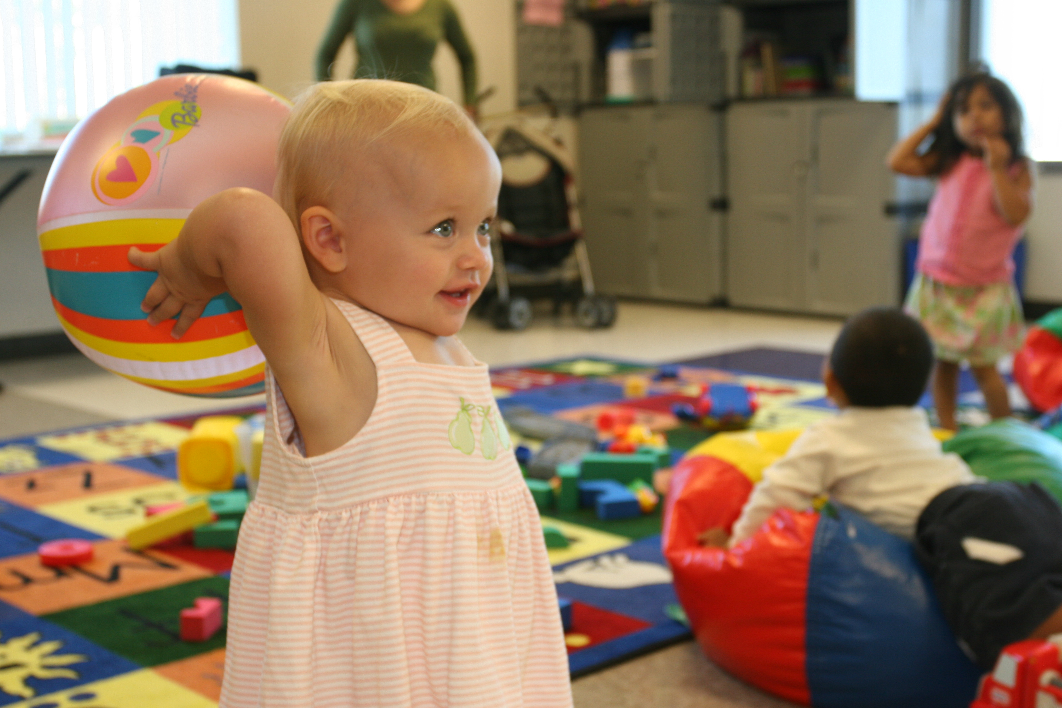 Marin McCarthy prepares to throw a ball as Israel Flores and Gabriela Miagany play behind her at the Community Center Tuesday as part of the Armed Services YMCA�s Fitness and Fun program that allows infants and toddlers to be watched while parents exercise.